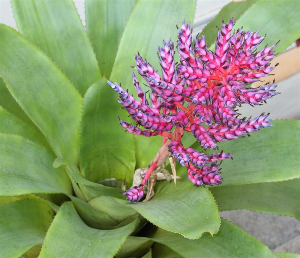 Aechmea 'Del Mar'